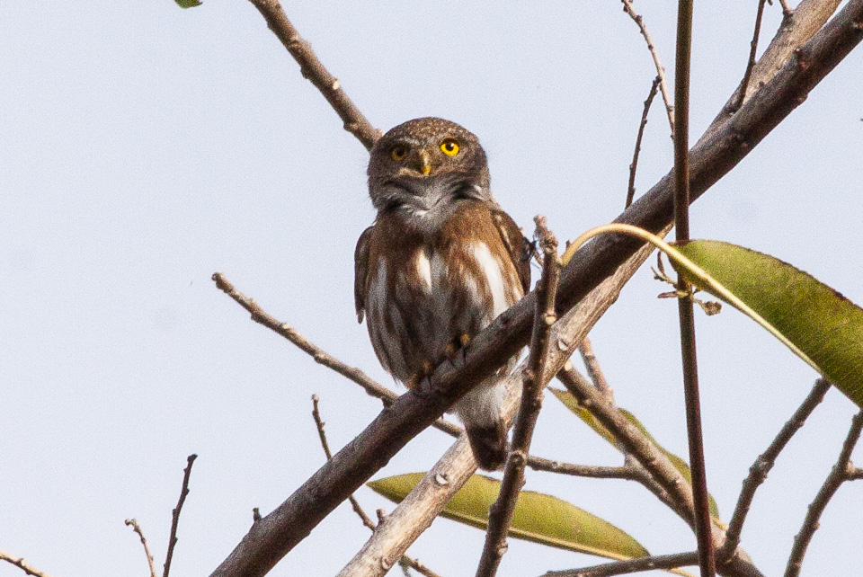 Colima Pygmy Owl Glaucidium palmarum, Durango Highway, Sinaloa, Mexico